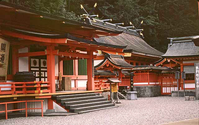 Kumano Nachi Taisha Shinto Shrine Nachikatsuura Wakayama prefecture Kii Peninsula Honshū Japan I took this photograph and contribute it to the public domain.